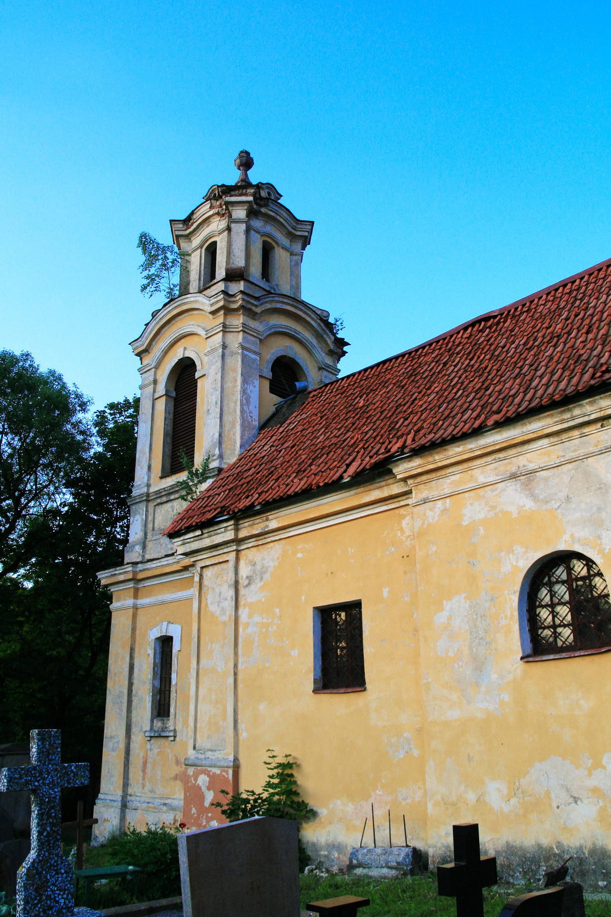 A chapel in Paneriai cemetery (Vilnius, Lithuania)